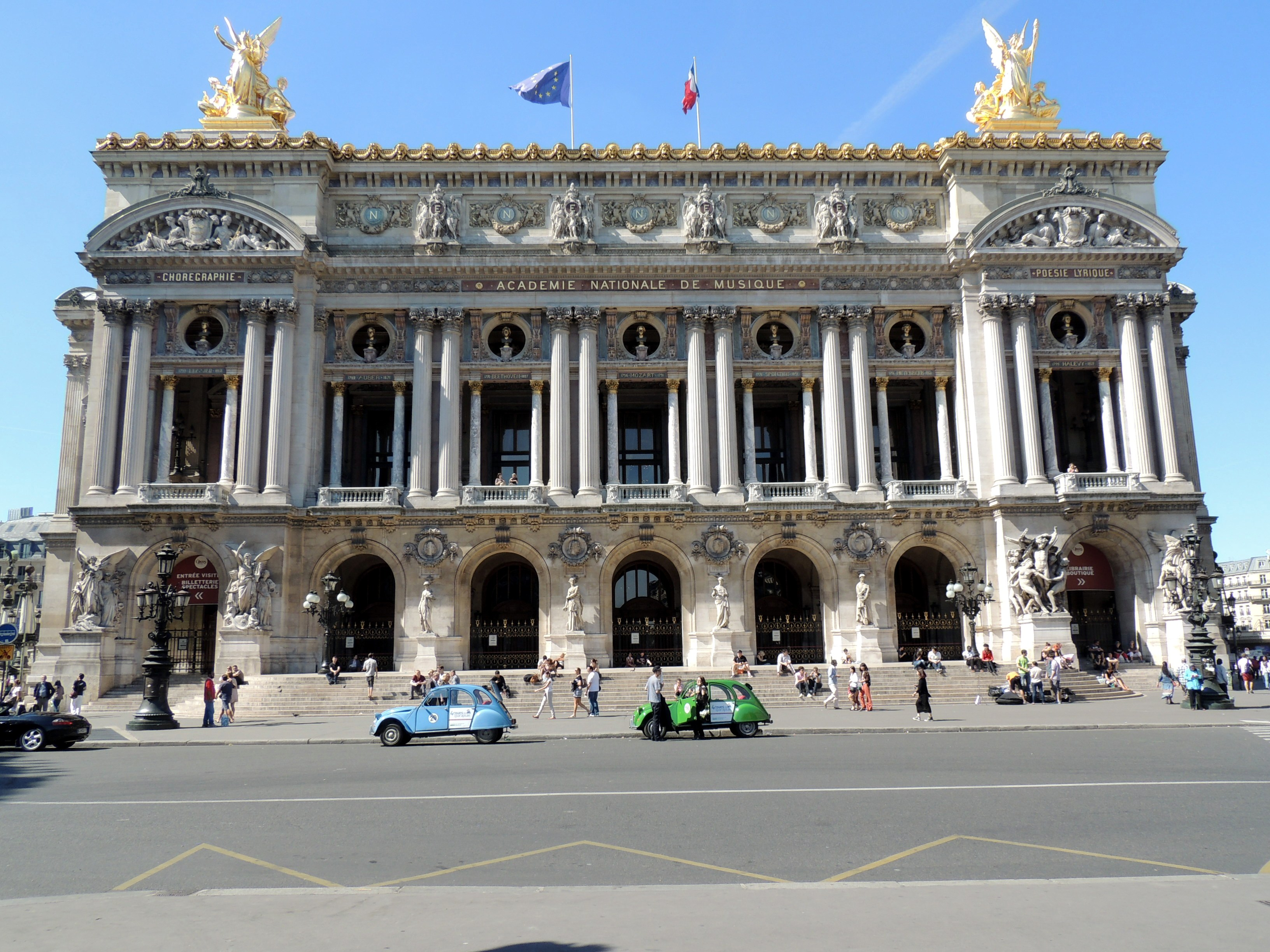 Opera - Paris .